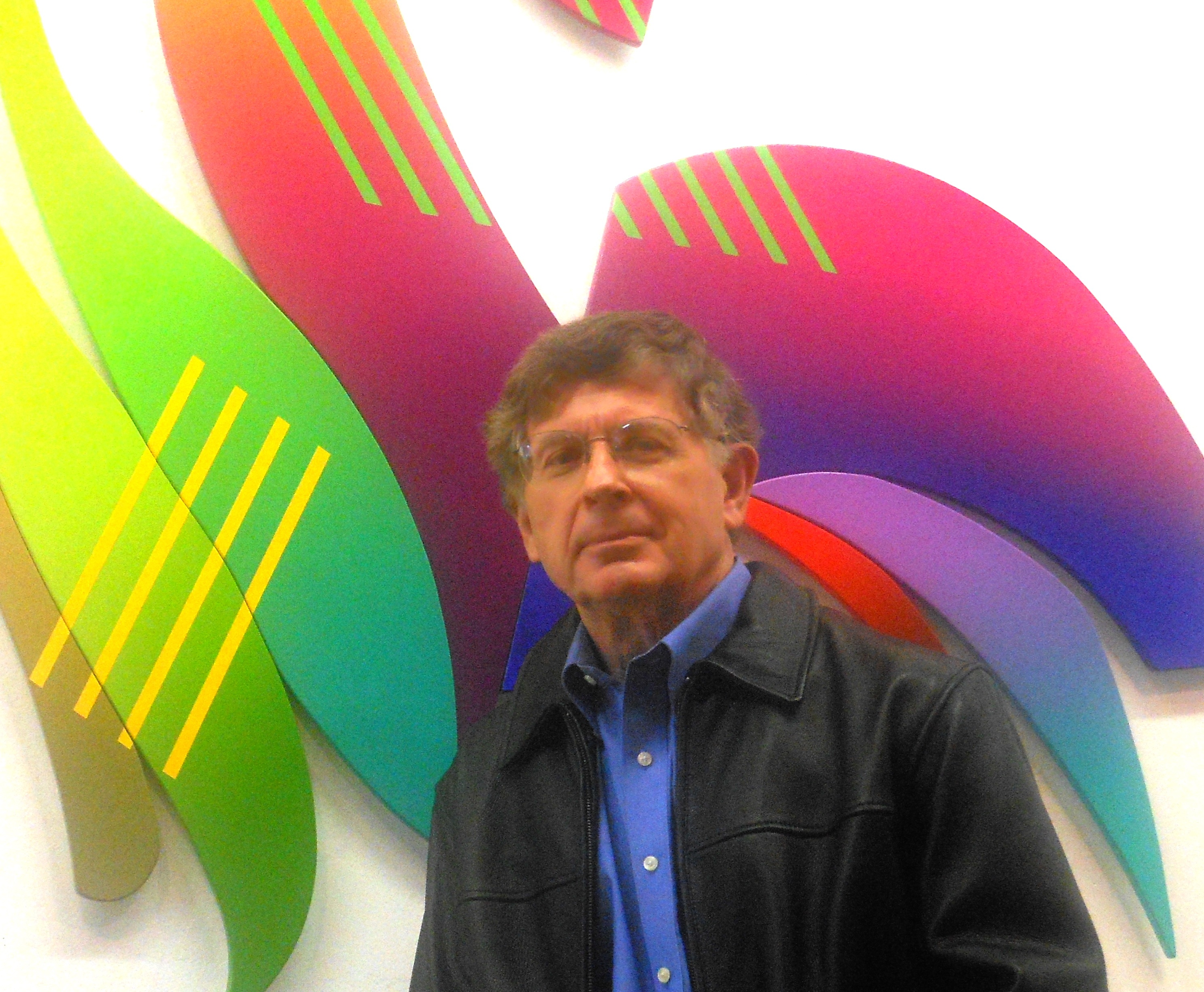 Ray L. Burggraf at his studio, 2013. Railroad Square Art Park, Tallahassee, FL.